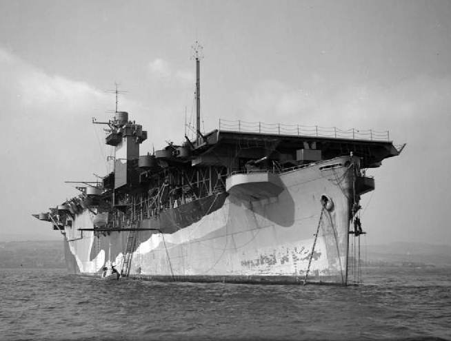 The Royal Navy escort carrier HMS Biter (D97) at anchor at Greenock, Scotland (UK), after a successful operation against German U-Boats.